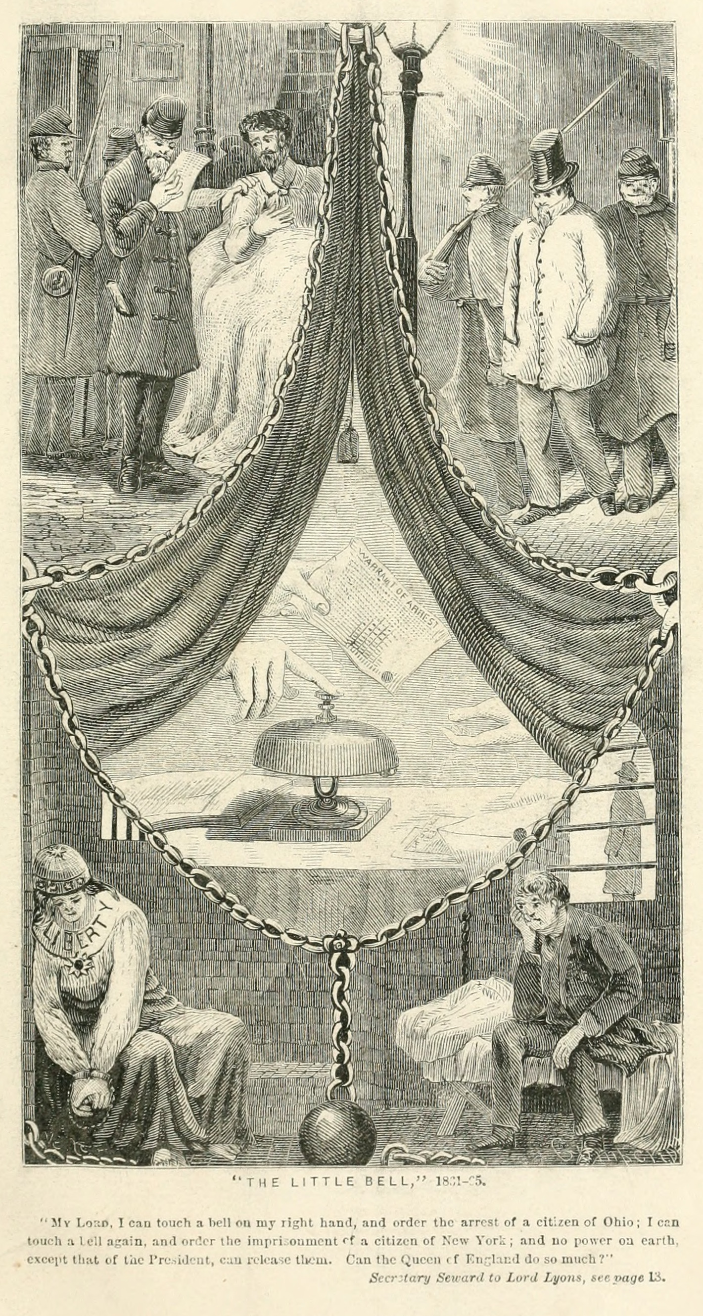 Hostile cartoon against Civil War wartime detentions